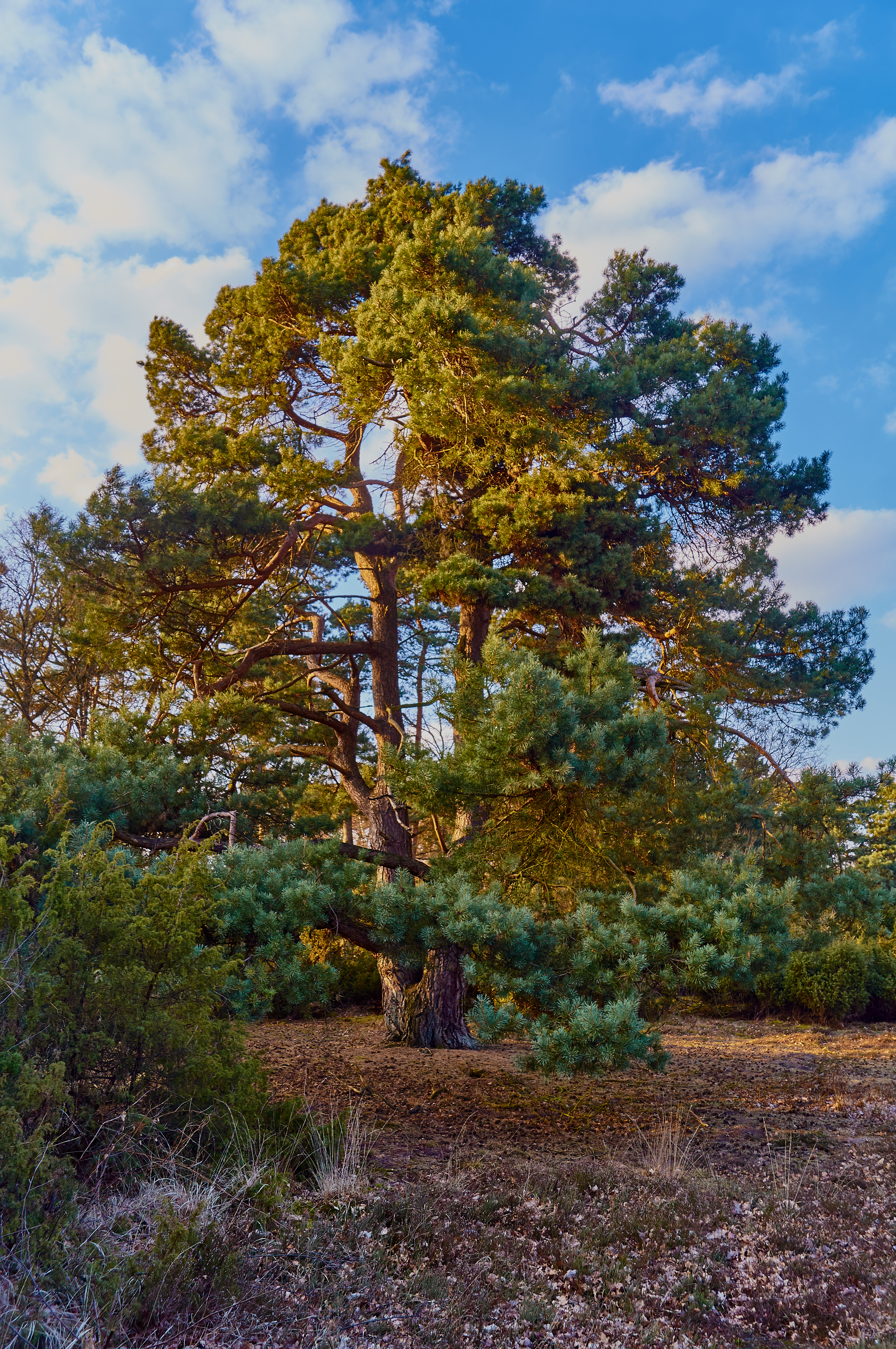 Pine tree in the nature reserve Wacholderheide Hoersteloe (BOR-030), Ahaus, North Rhine-Westphalia, Germany.